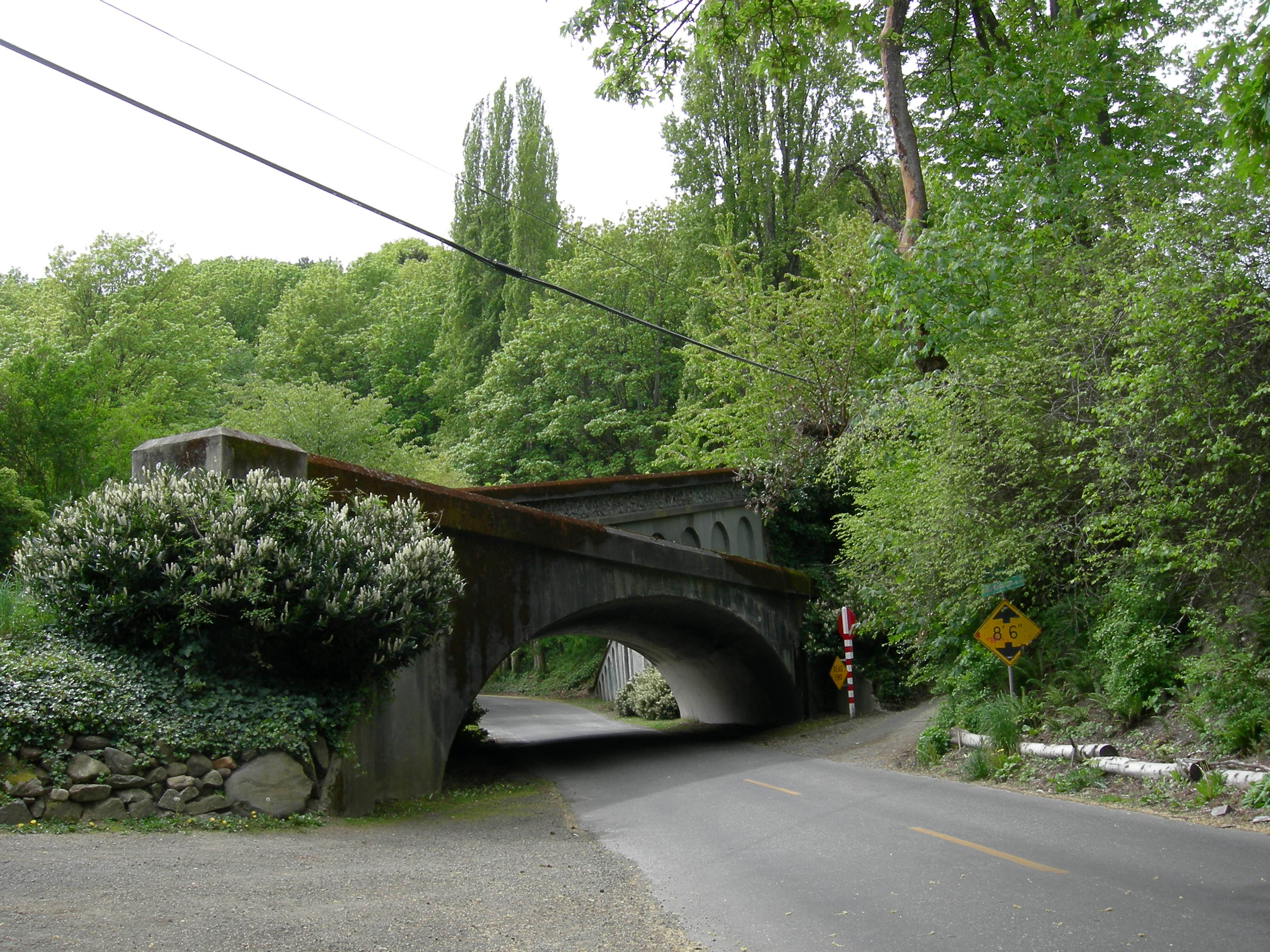 Former cable car bridge (from the old Yesler Way trolley) crossing Lake Washington Boulevard in Leschi Park, Seattle, Washington. Seen here from the north.